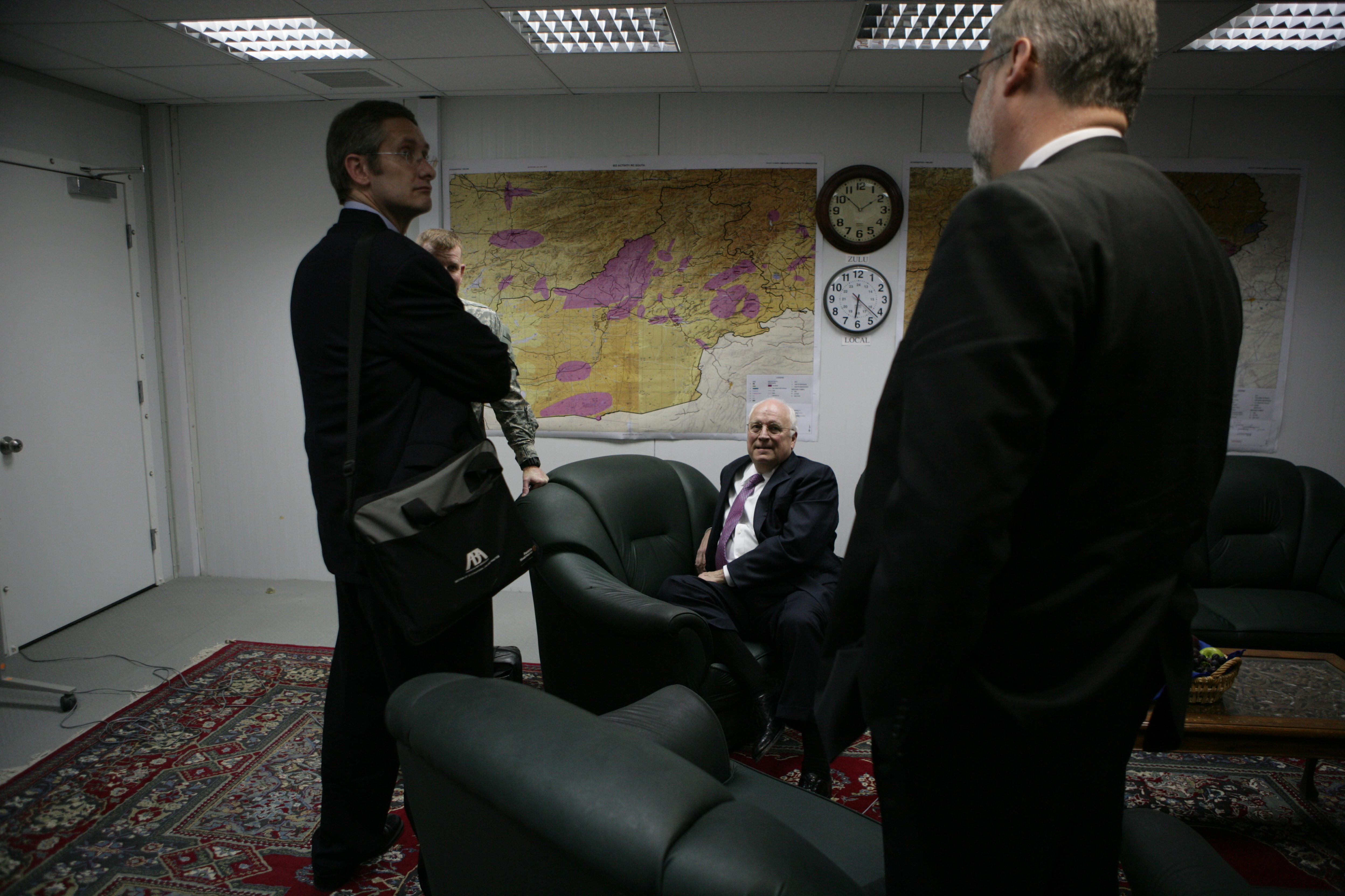 These images have been released in response to a FOIA request, case number 2014-0012-F, received by the National Archives. For more information on these images, please visitResearching Vice Presidential Materials. These photos will be available in the National Archives Catalog in July 2015. Local Identifier: V022607DB-0319 Created By: President (2001-2009 : Bush). Office of Management and Administration. Office of White House Management. Photography Office. 1/20/2001-1/20/2009 From: Collection: Vice Presidential Records of the Photography Office (George W. Bush Administration), 1/20/2001 - 1/20/2009 Contact: Presidential Materials Division (LM) National Archives Building 7th and Pennsylvania Avenue NW Washington, DC 20408 Phone: 202-357-5200 Fax: 202-357-5939 Production Dates: 2/26/2007 Persistent URL: Access Restrictions: Unrestricted Use Restrictions: Unrestricted